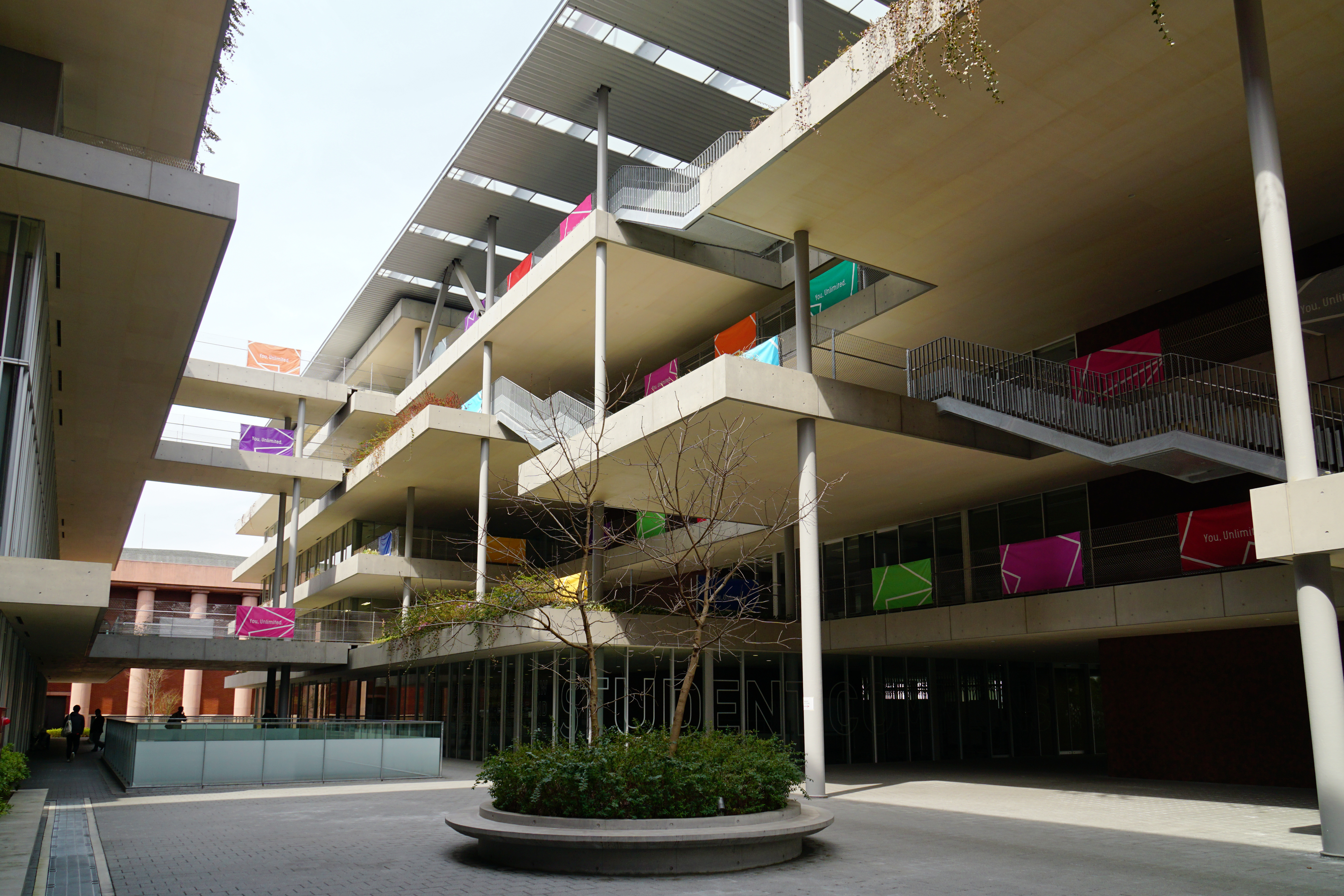 Ryukoku University Fukakusa Campus in Kyoto, Kyoto prefecture, Japan